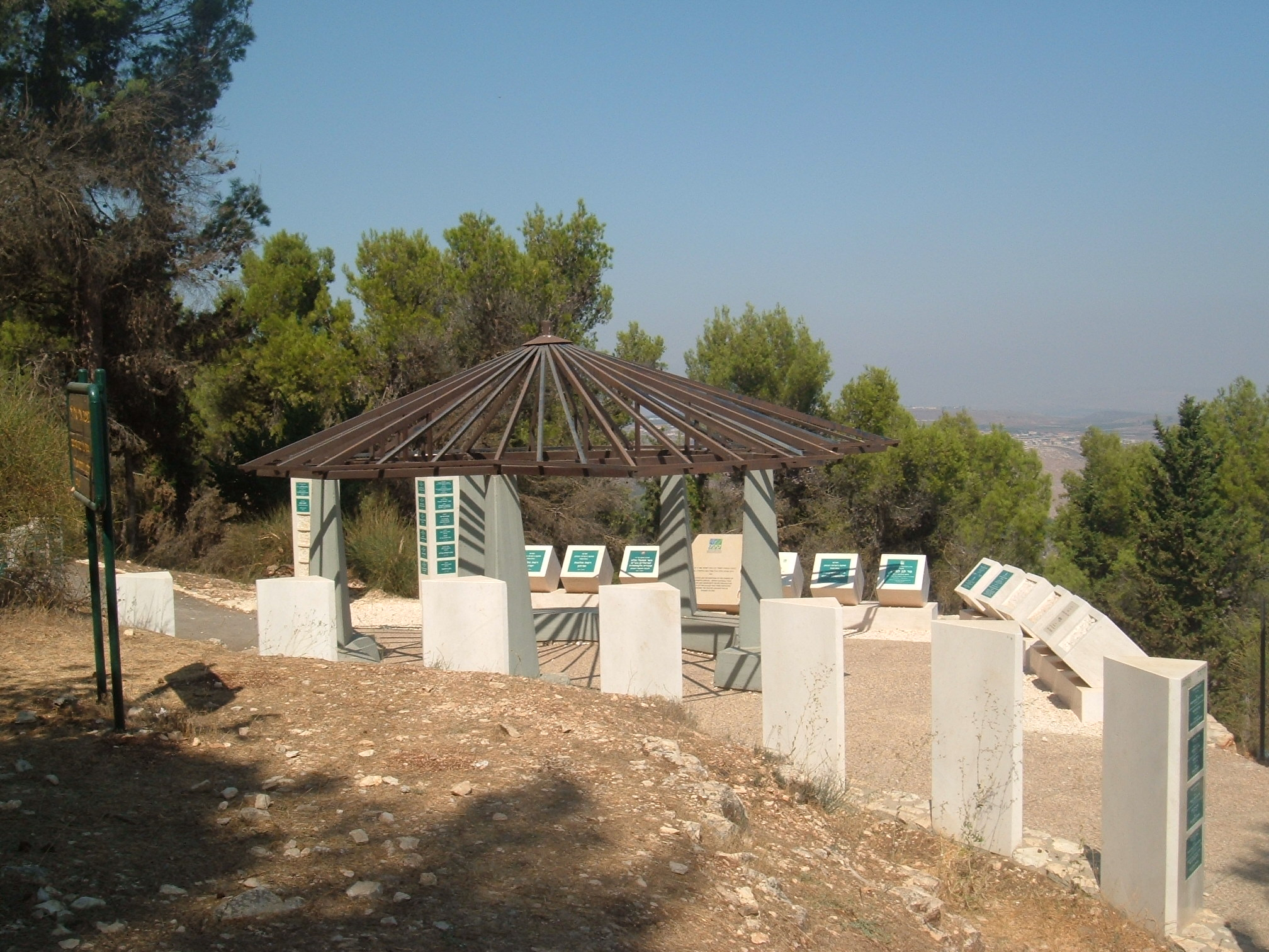 scenic viewpoint in Birya forest, Galilee, Israel. מצפור נוף ביער ביריה